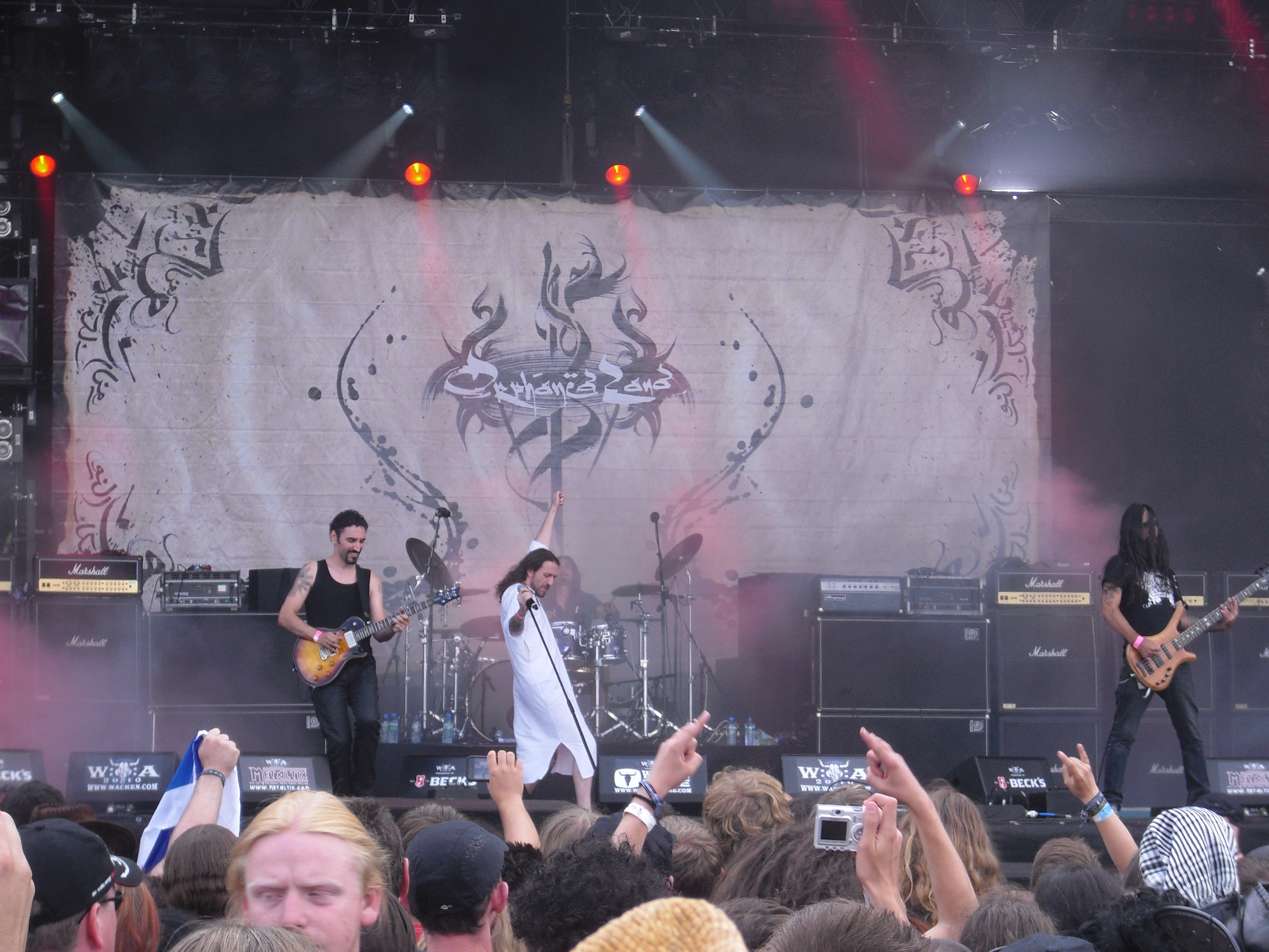 Orphaned Land performing live at Wacken Open Air in August 2010